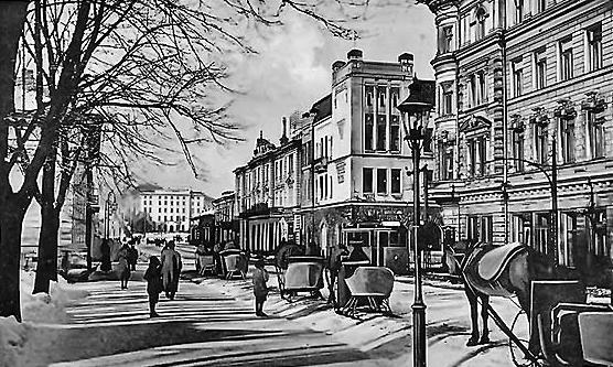 Aurakatu at Turku in 1910's